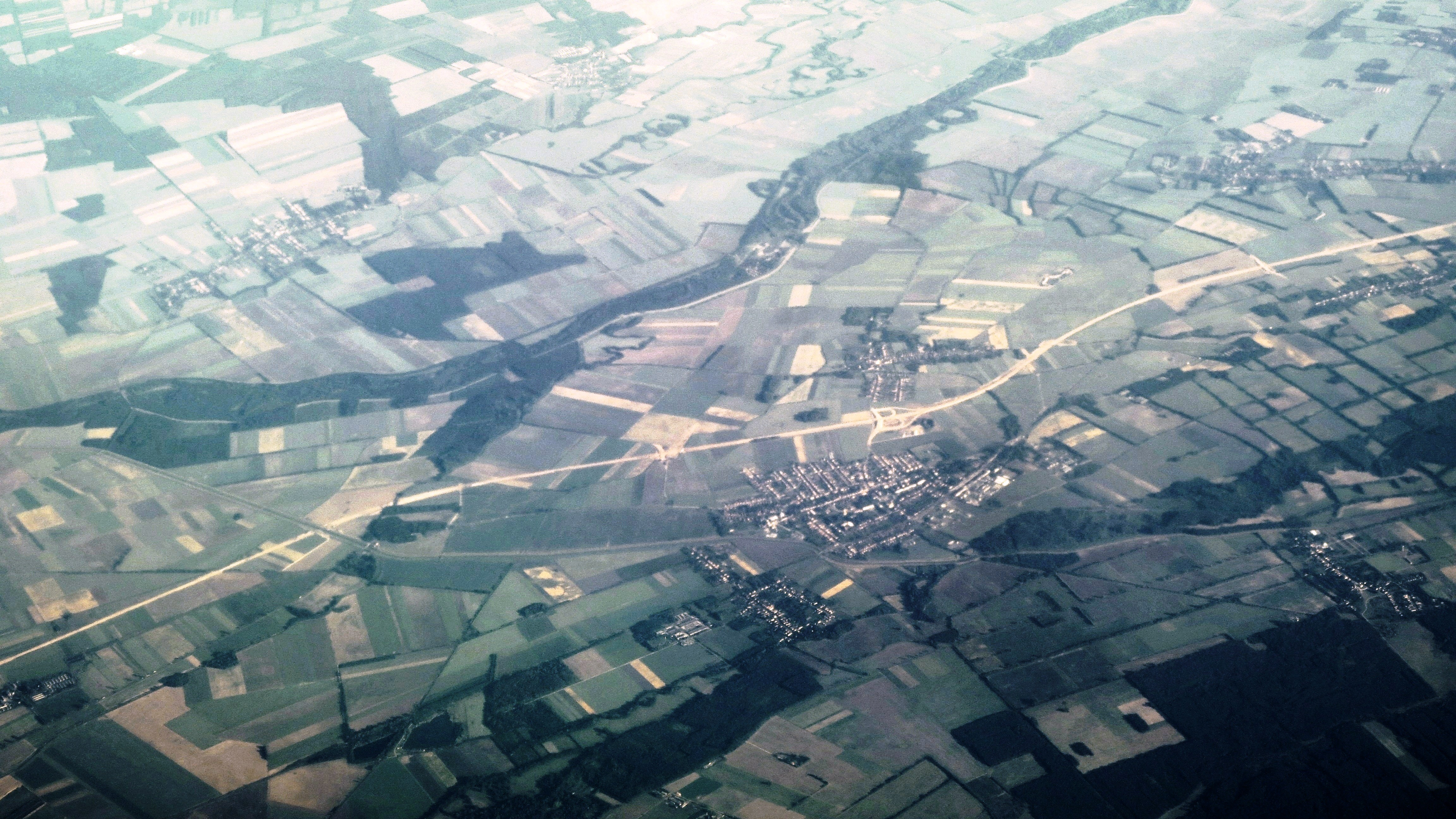 Aerial view over villages and landscape of the Györ-Moson-Sopron county / district of western Hungary.